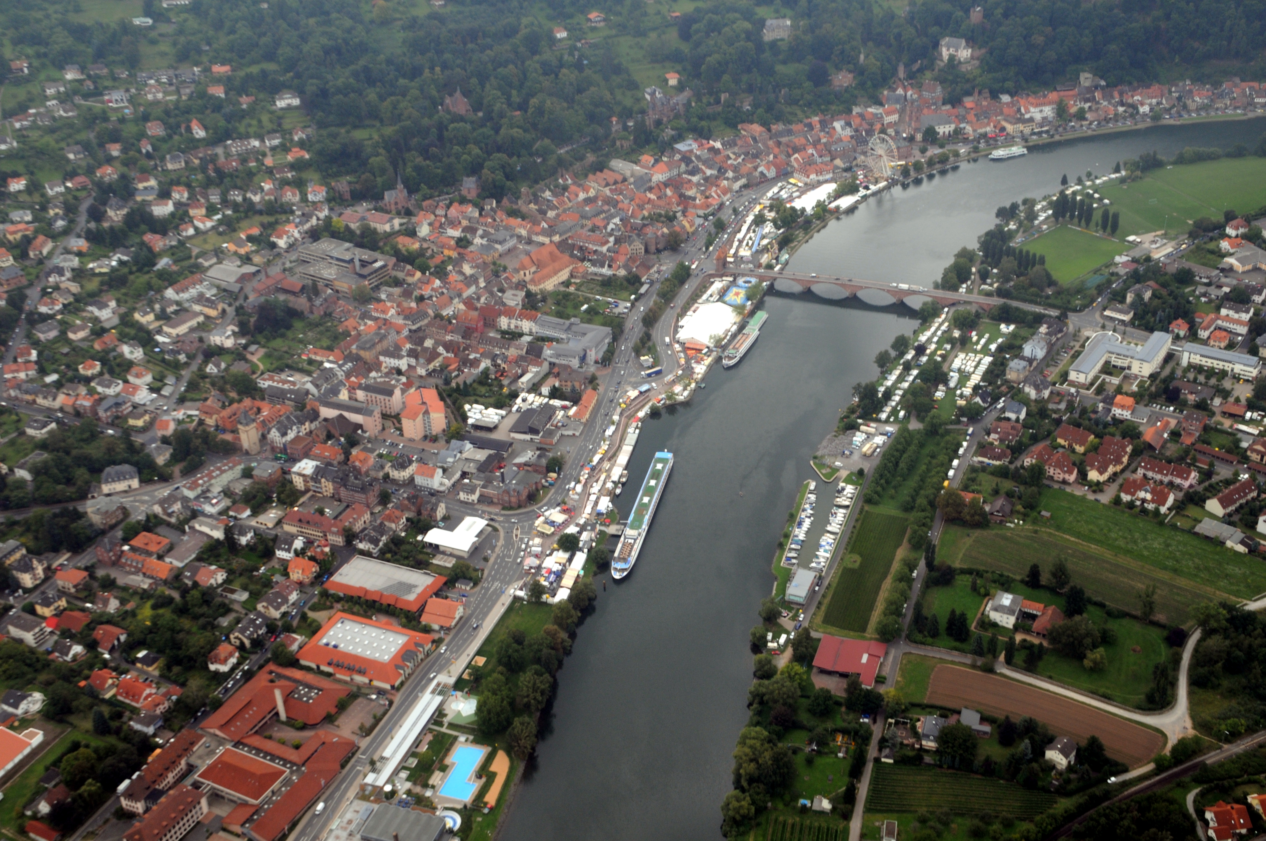 Miltenberg, Bavaria, Germany, aerial photograph